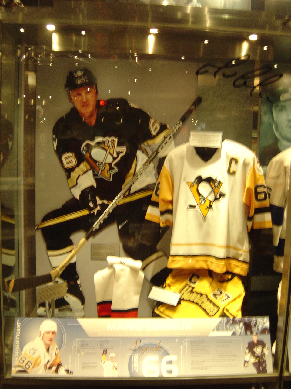 Piece made in commemoration of Mario Lemieux in the hockey hall of fame.